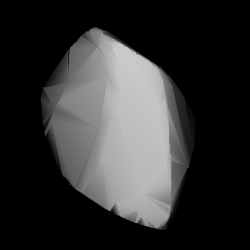 3D convex shape model of 5027 Androgeos, computed using light curve inversion techniques. J. Hanuš, J. Ďurech, M. Brož, B. D. Warner (June 2011). "A study of asteroid pole-latitude distribution based on an extended set of shape models derived by the lightcurve inversion method". Astronomy and Astrophysics 530: A134. ISSN 0004-6361. arXiv